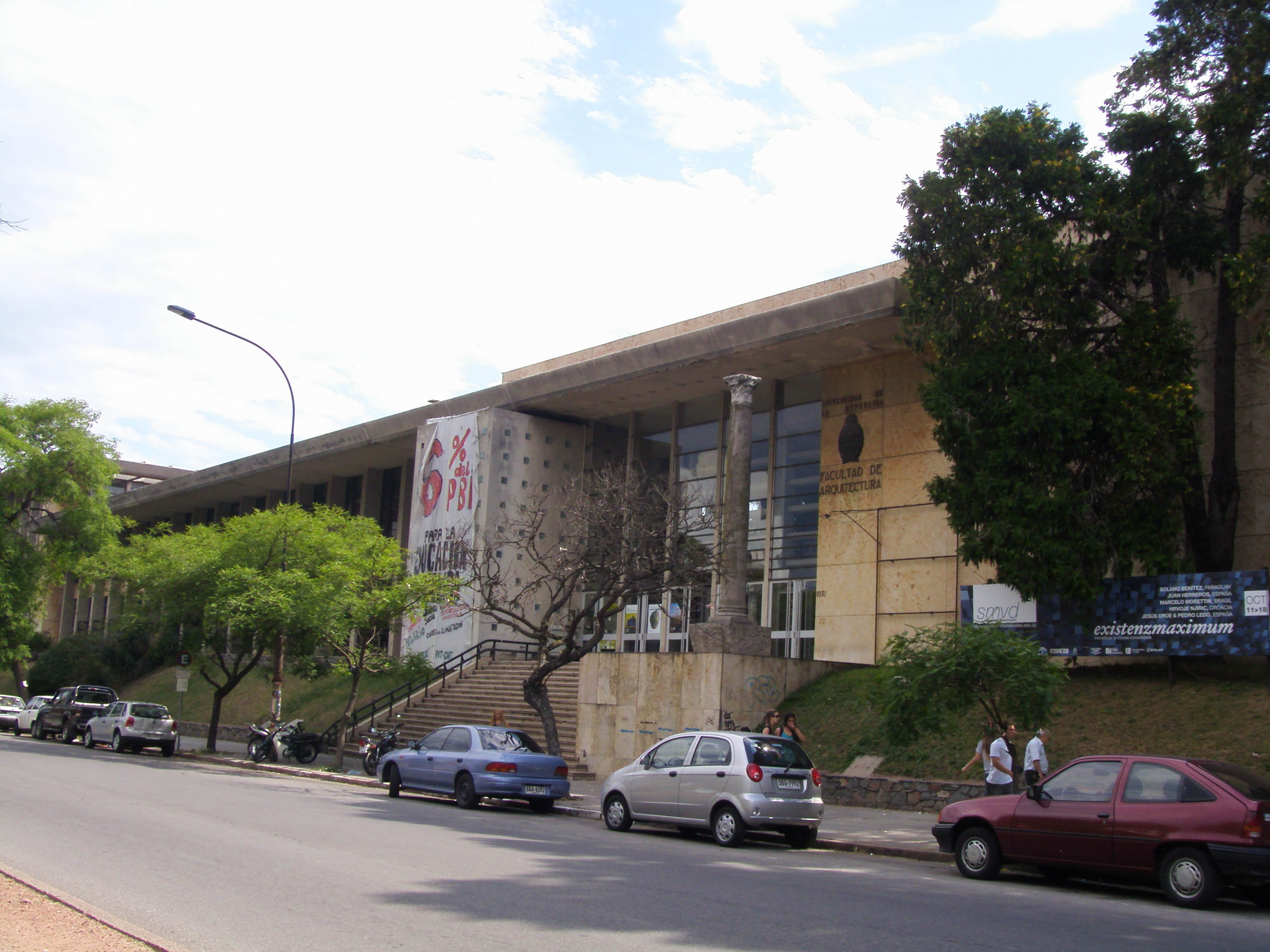 Font of the Facultad de Arquitectura (College of Architecture) of the Universidad de la República (University of the Republic), Montevideo, Uruguay.